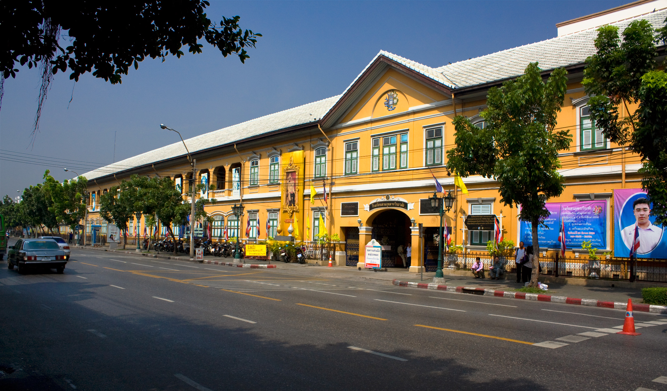 Suankularb Wittayalai School, Phra Nalkhon, Bangkok, Thailand